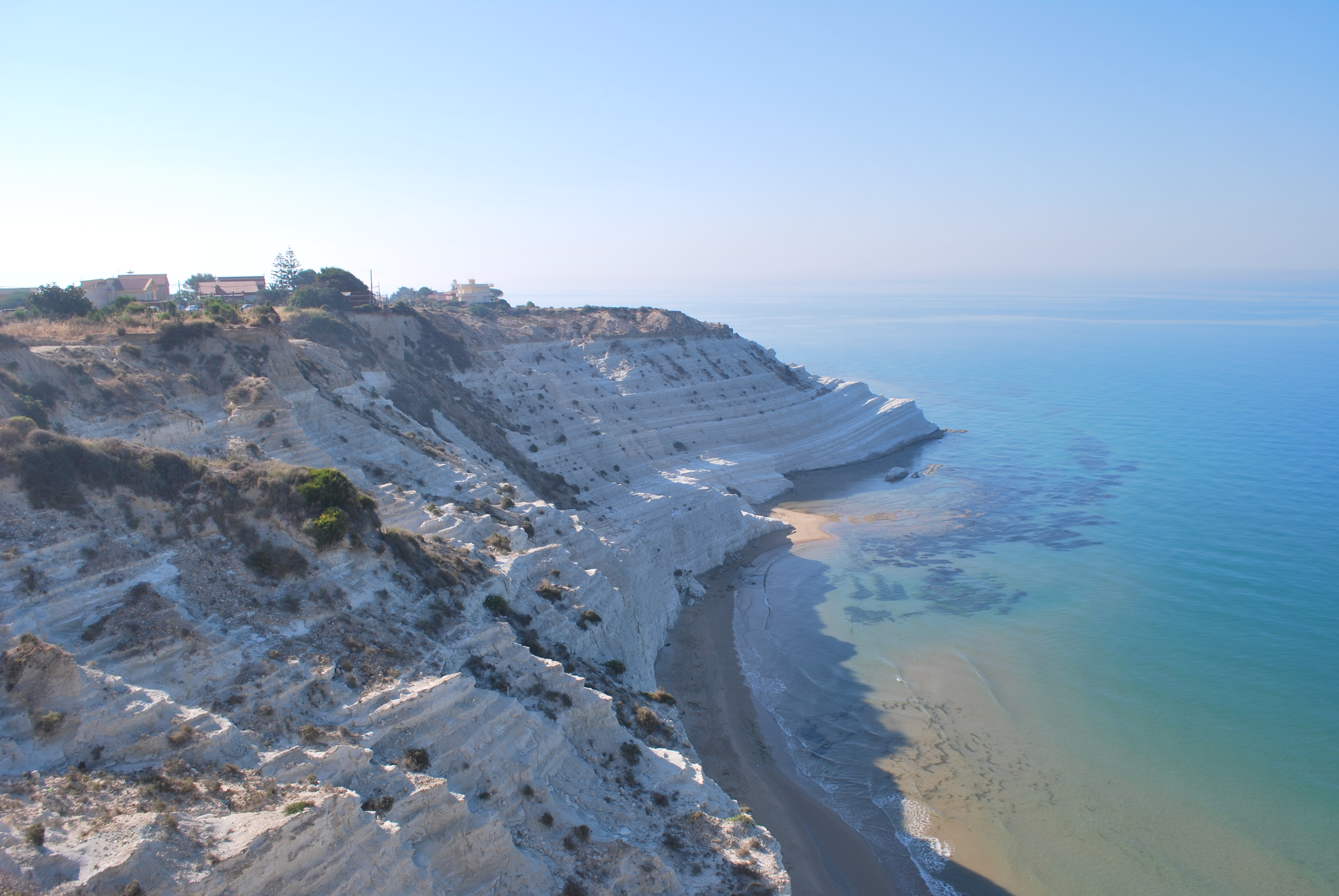 Turkish Steps in Agrigento